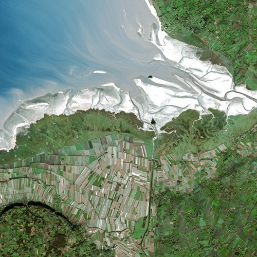 Mount Saint Michael by SPOT Satellite